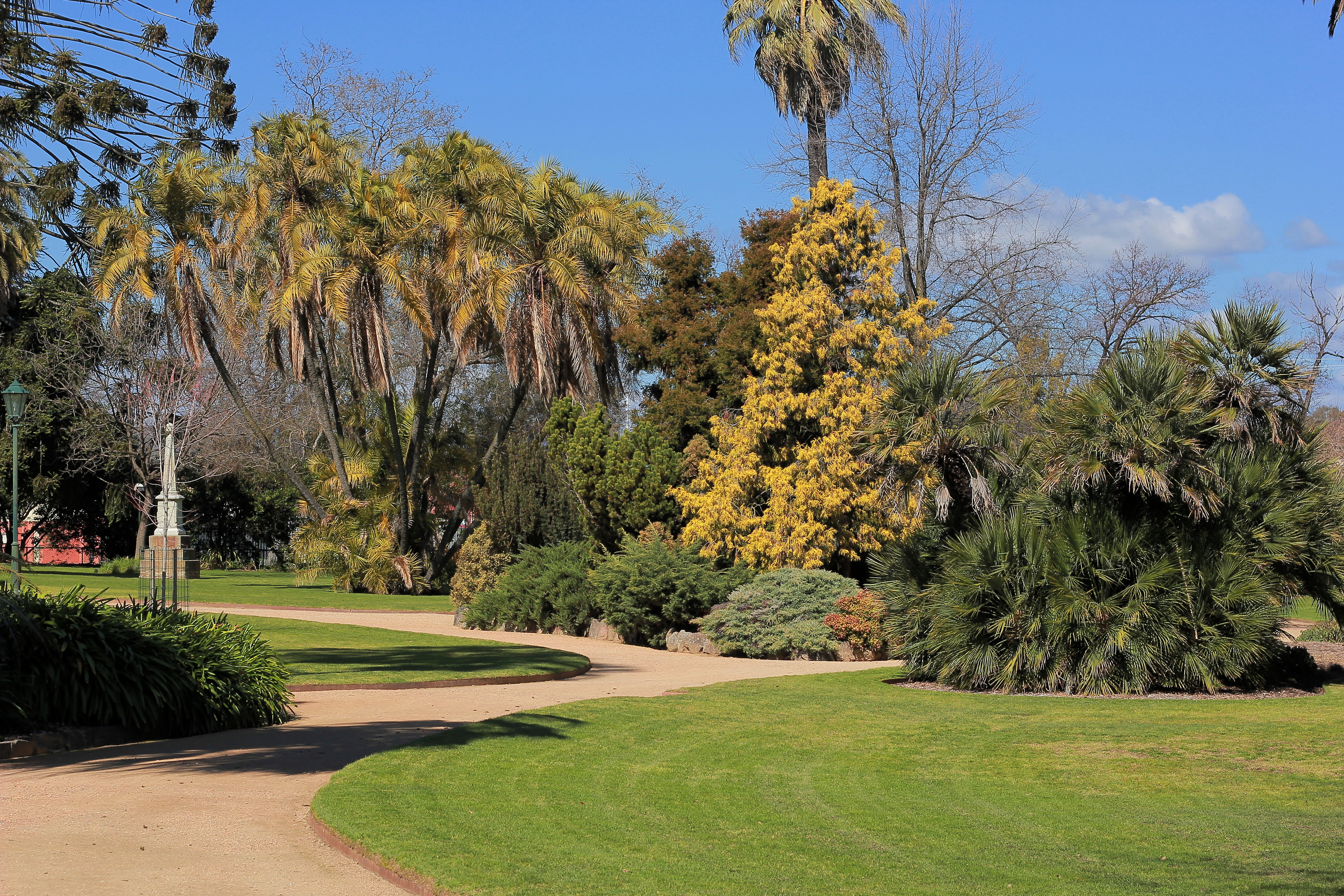 Paths in the Albury, NSW botanical gardens, along with lawns, trees and other flora